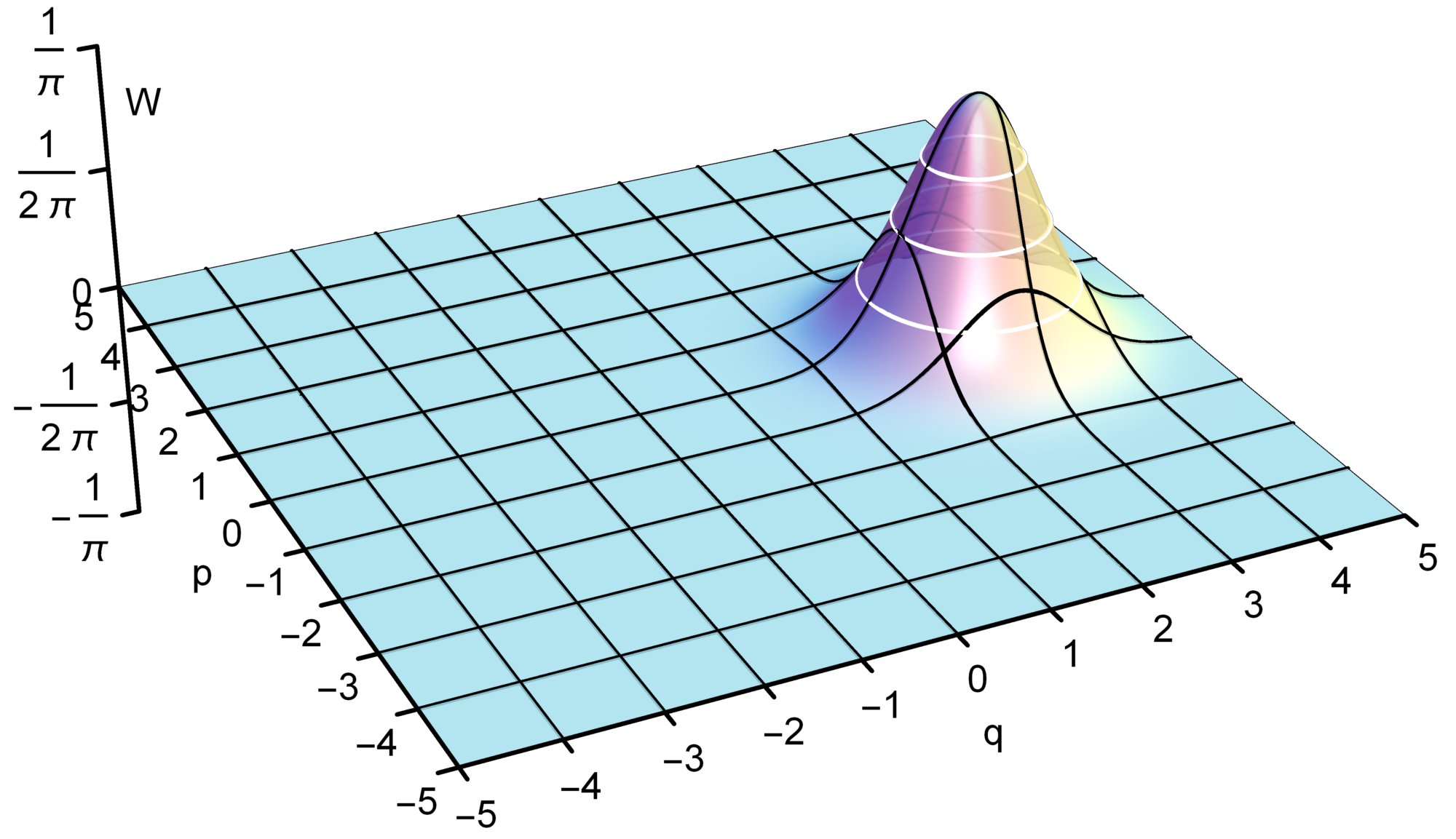 Wigner function of a coherent state with amplitude α=2.